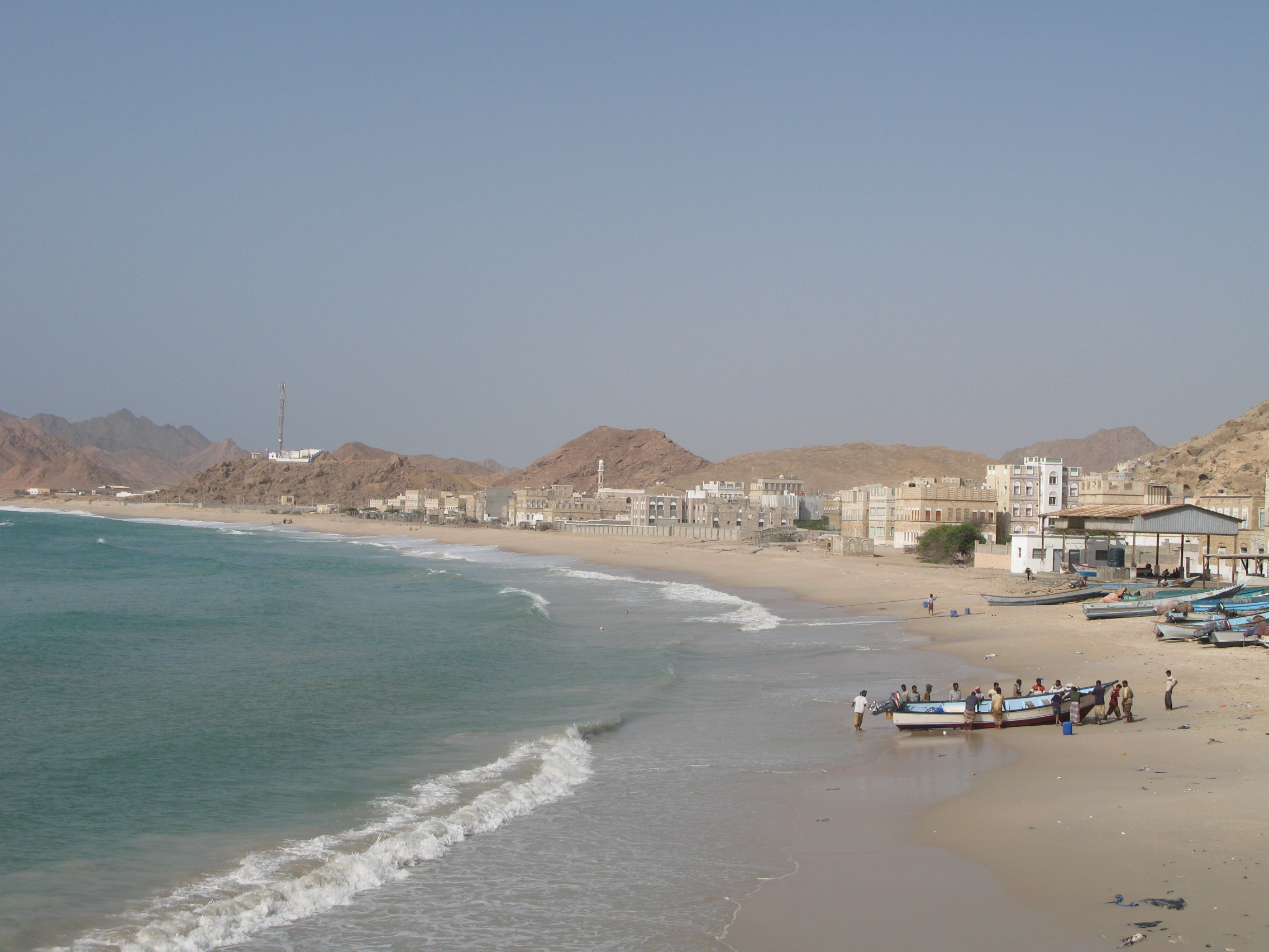 Bir Ali, Yemen